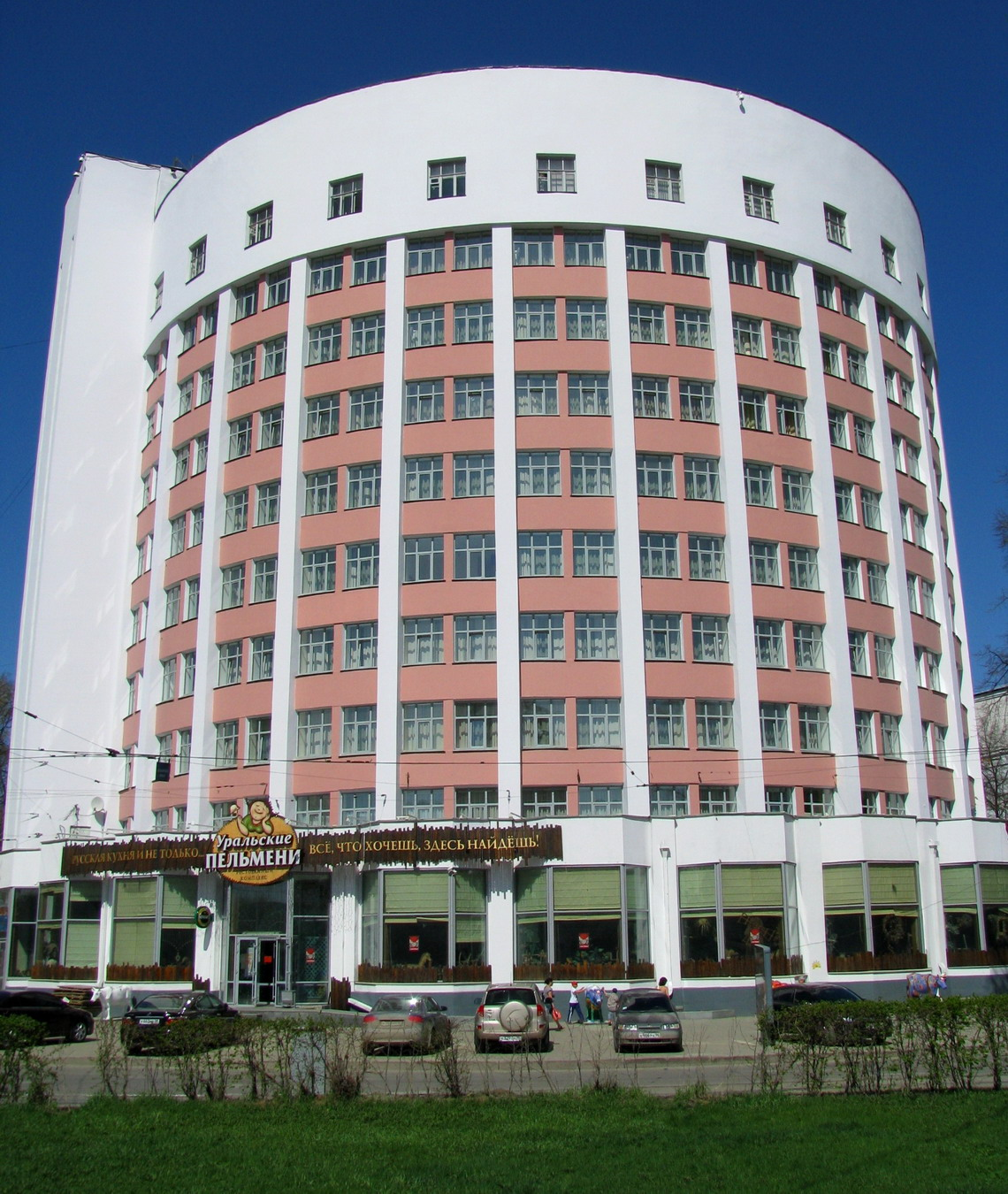 Hotel "Iset", Yekaterinburg (Constructivist architecture,1930)